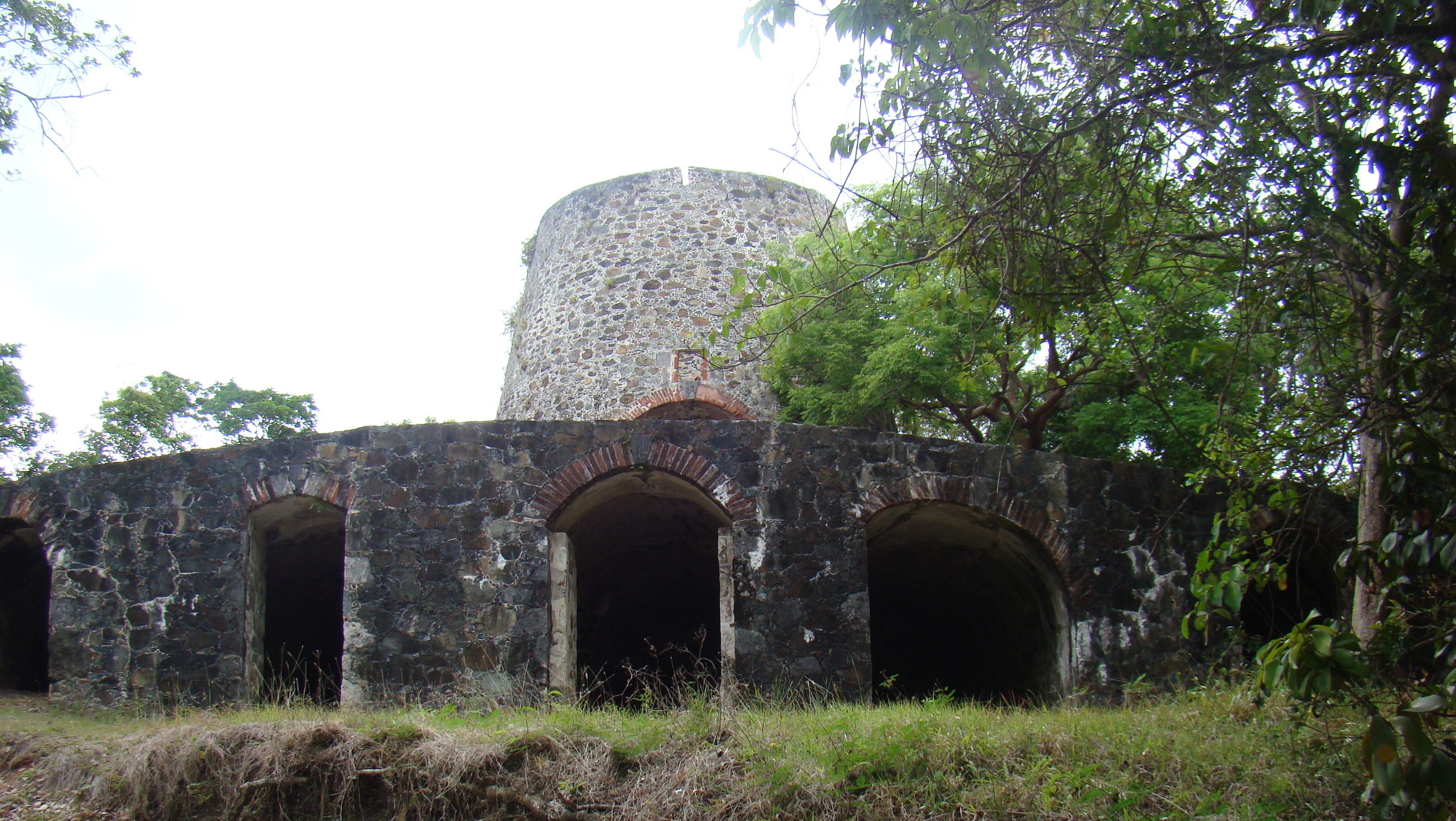 Catherineberg Sugar Mill Ruins located in the Virgin Island National Park on Saint John, U.S. Virgin Islands. The ruins are an example of an 18th century sugar and rum factory. In the 1733 slave revolt, Catherineberg was the headquarters of the Amina warriors.